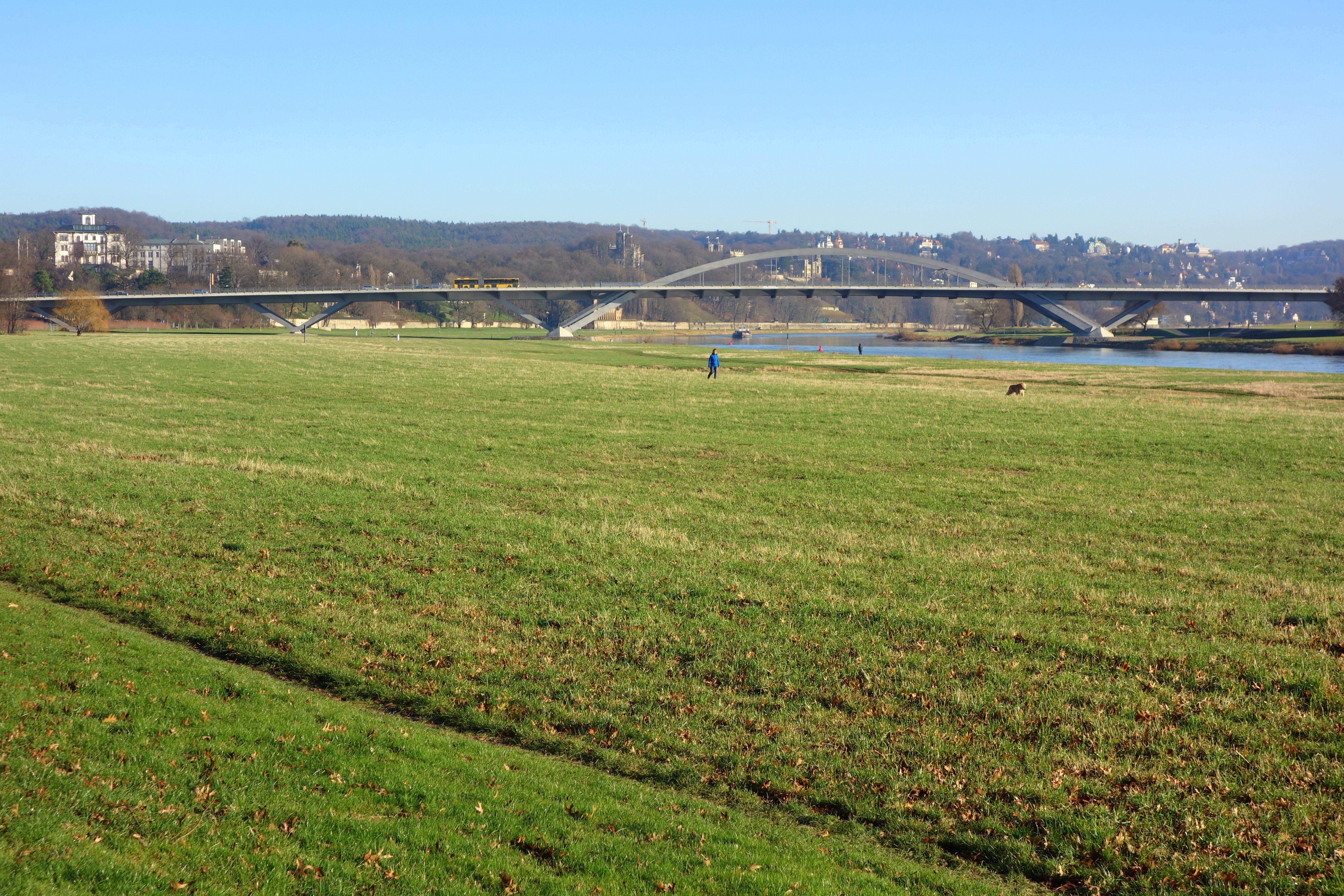 Waldschlößchenbrücke - Dresden, Germany.